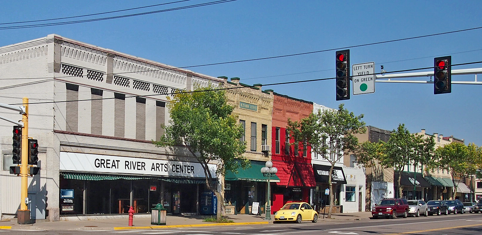 Little Falls Commercial Historic District, 100 block of 1st St SE, Little Falls, Minnesota, USA. Viewed from the south-southeast.